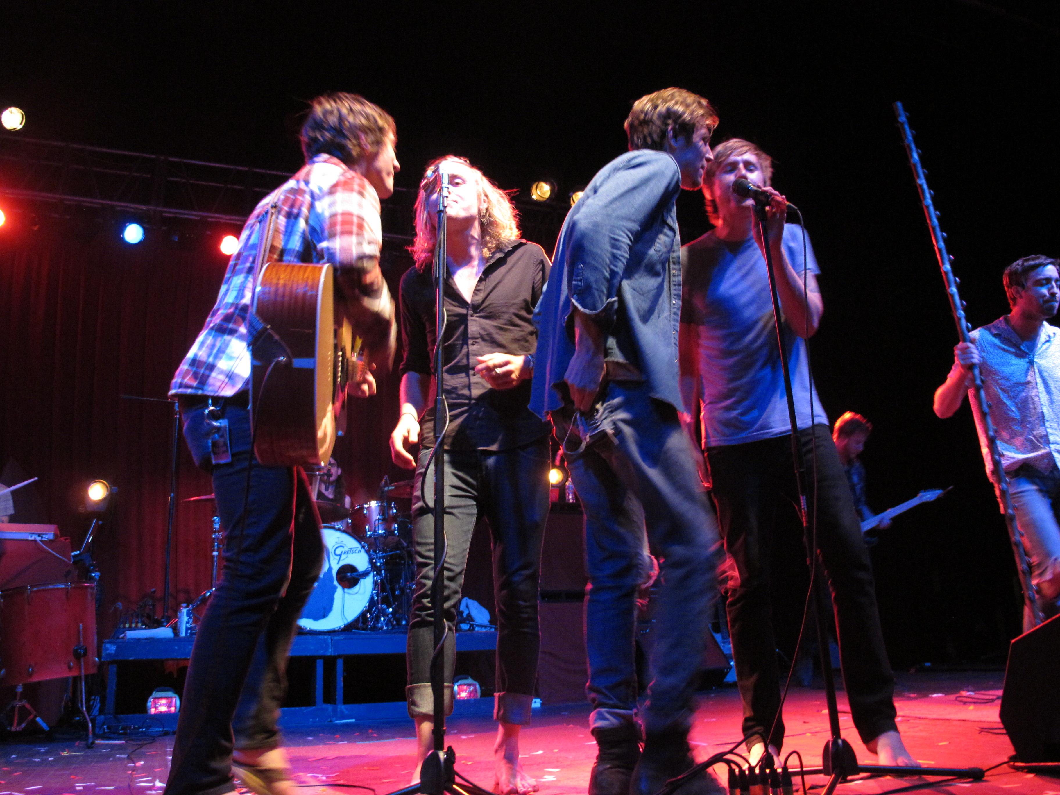 The Maine